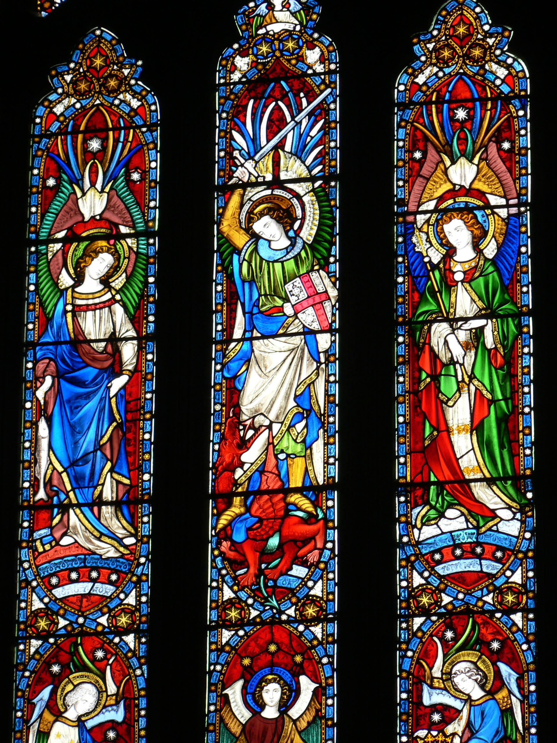 SS Michael, Gabriel, Raphael and angels in a 19th-century stained glass window in the Roman Catholic church of St Michael and All Angels, Belmont Abbey, Herefordshire